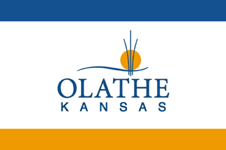 English